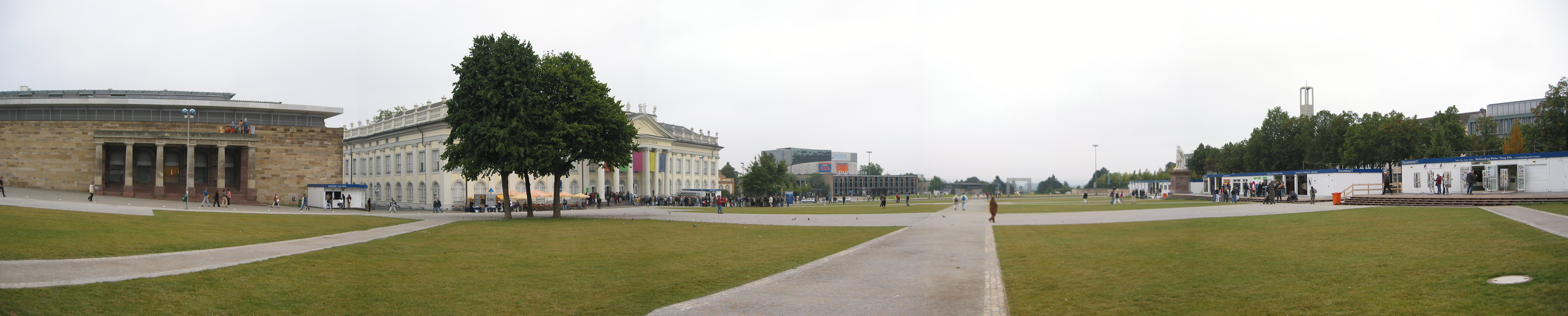 Stiched-together panorama shot of the documenta (sic!) September 2002 in Kassel.